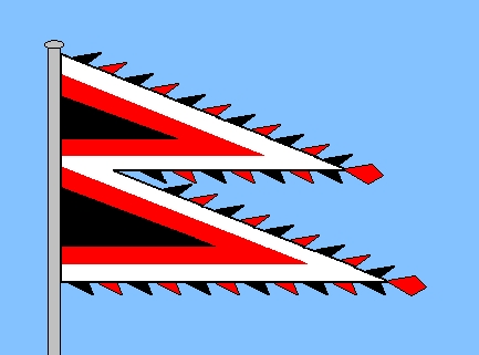 Huvadu Atoll Chief Flag